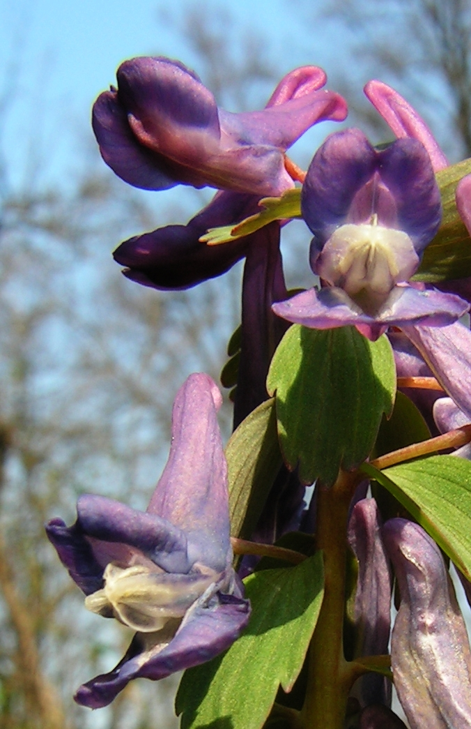 The flowers of Corydalis solida. Moscow region, Russia. Russia.